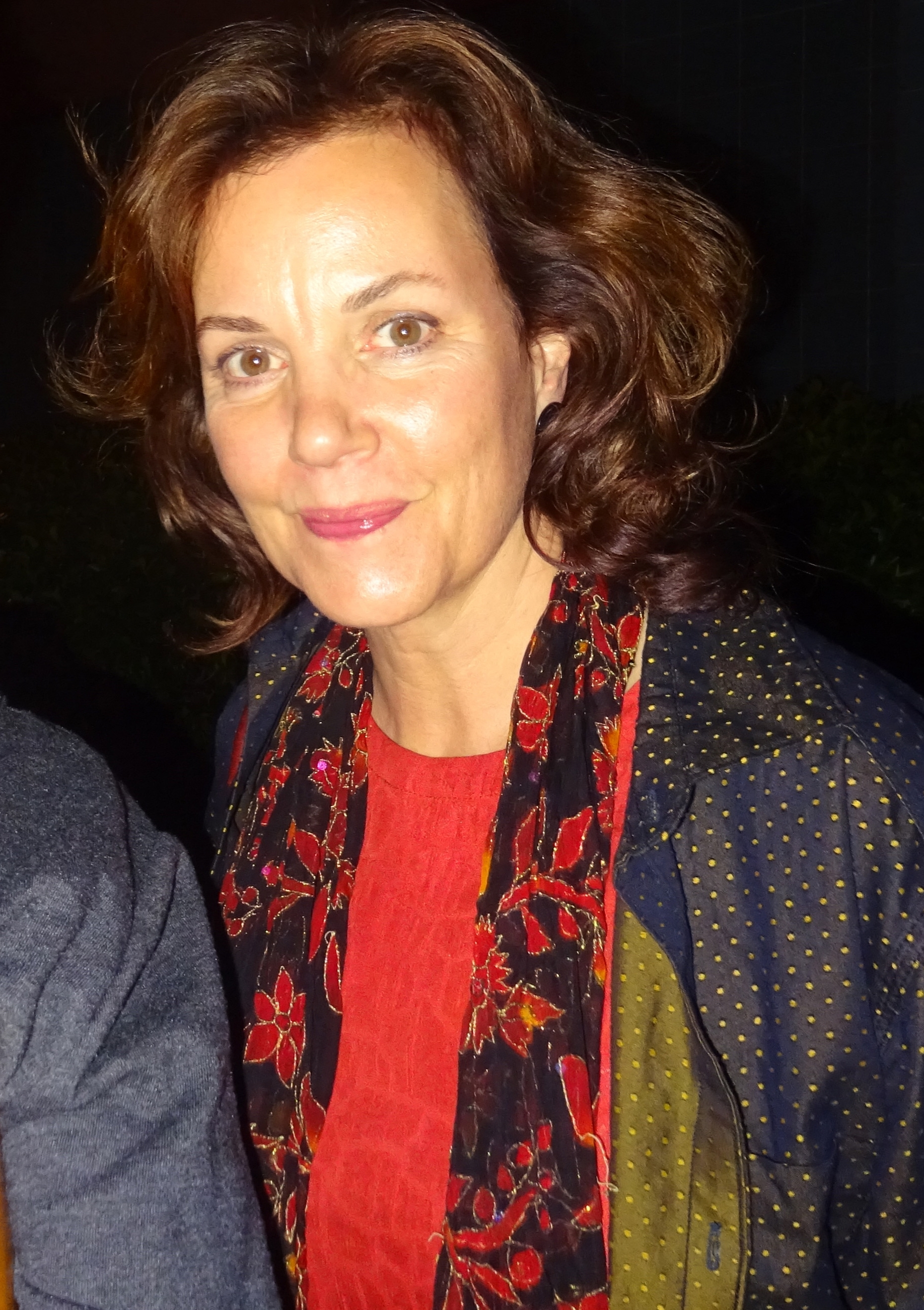 Margaret Colin at Tribeca Film Festival, 2016